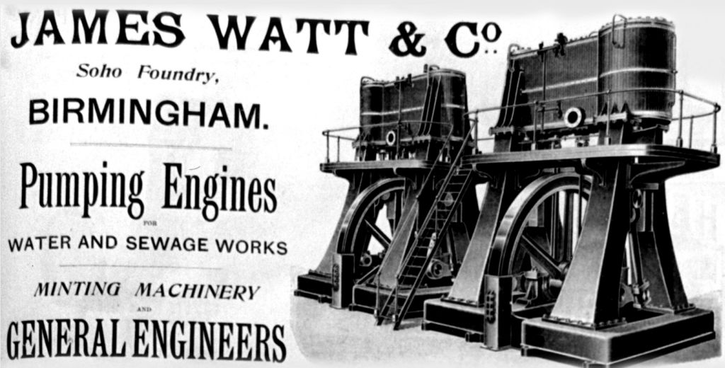 Advertisement for James Watt & Co. pumping engines.